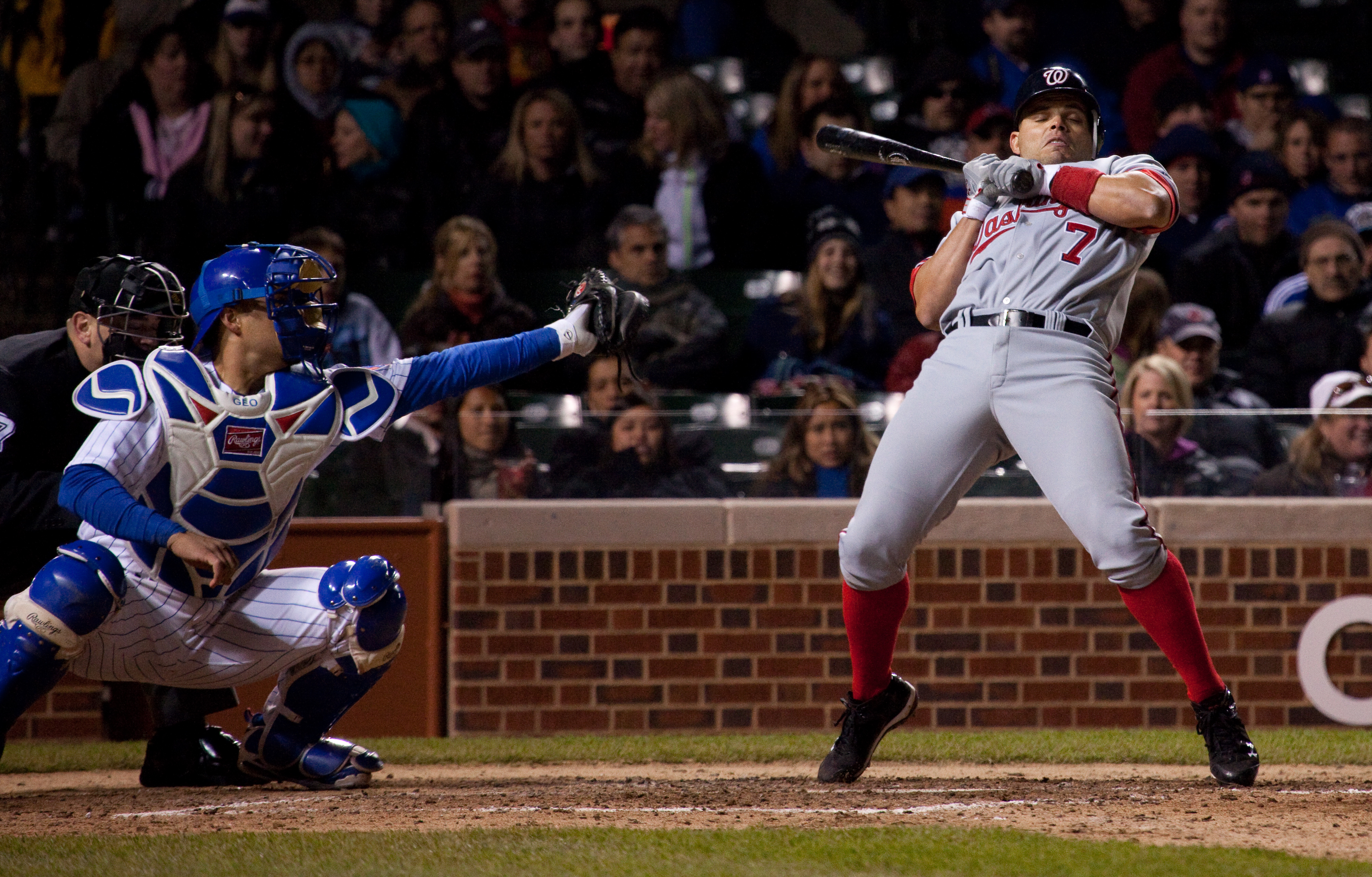 Ivan Rodriguez (right) of the Washington Nationals is brushed back by a pitch caught by Geovany Soto of the Chicago Cubs during a 2010 game at Wrigley Field in Chicago.